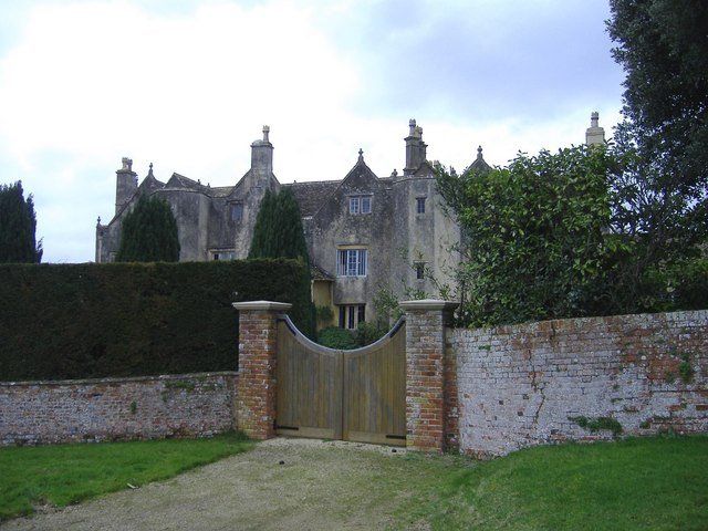 Bradley Court Located to the west of Wotton-under-edge.